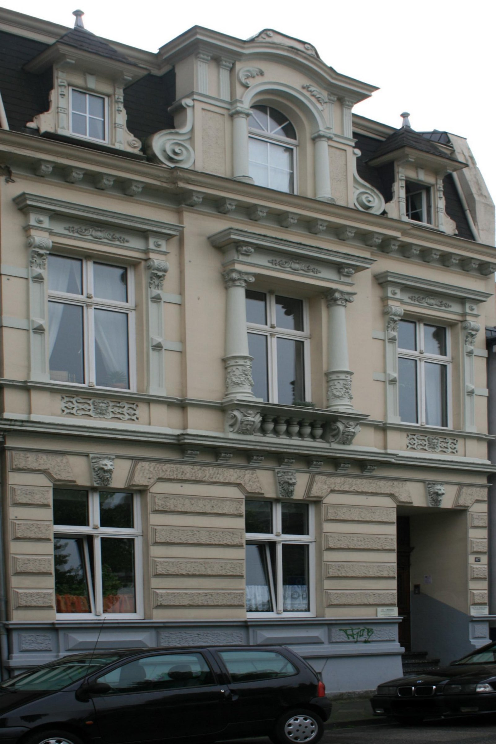 Cultural heritage monument No. S 003 in Mönchengladbach